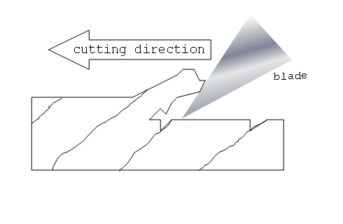 Planing "along the grain", "against the grain".